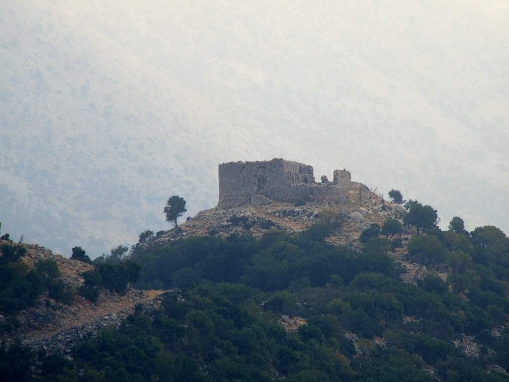 Castle in Askifou (Crete, Greece)